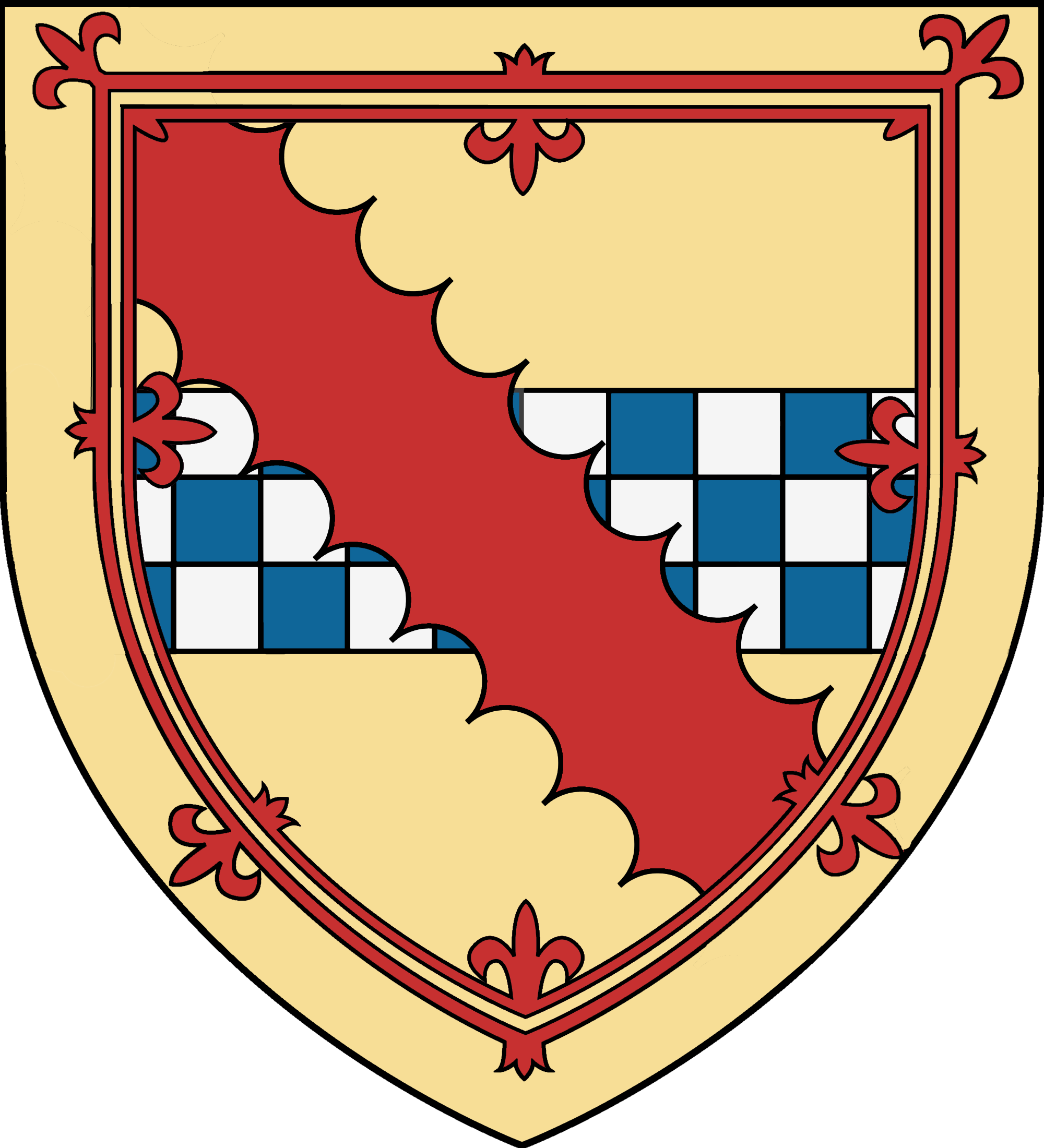 Shield of arms of the Right Honourable Randolph Keith Reginald Stewart, Earl of Galloway, Lord of Garlies, Baron Stewart of Garlies and Baronet of Corsewell and Burray.